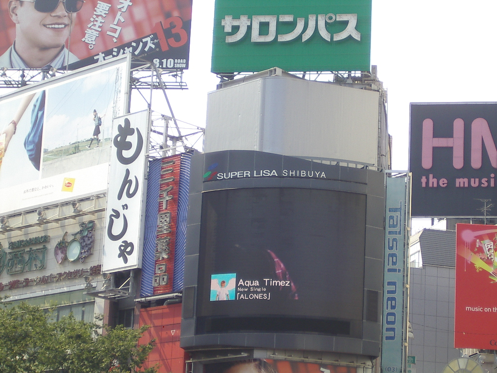 Super Lisa Shibuya screen, that time showing PV of ALONES by Aqua Timez.